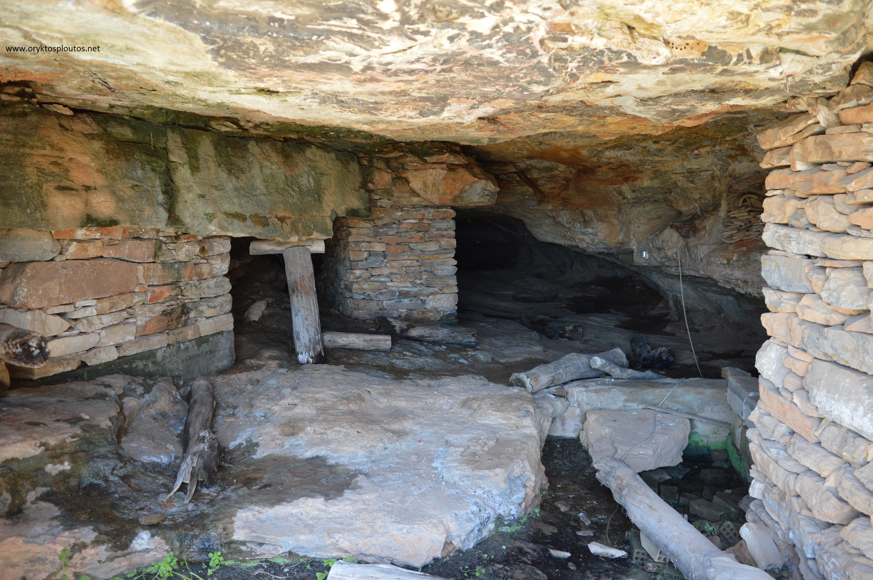 Ancient Mine Gallery in Lavrio Next to Ancient Thorikos Theatre.The beams supporting the gallery are modern